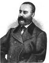 Poikilē stoa: ethnikē eikonographēnenē epetēris ... Etos 1-16, 1881-1914 (1894) Author: Ioannes A. Arsenēs , Michael A . Raphaelobits Volume: 10 Publisher: Estia Year: 1894 Possible copyright status: NOT_IN_COPYRIGHT Language: Greek Digitizing sponsor: Google Book from the collections of: Harvard University Collection: americana